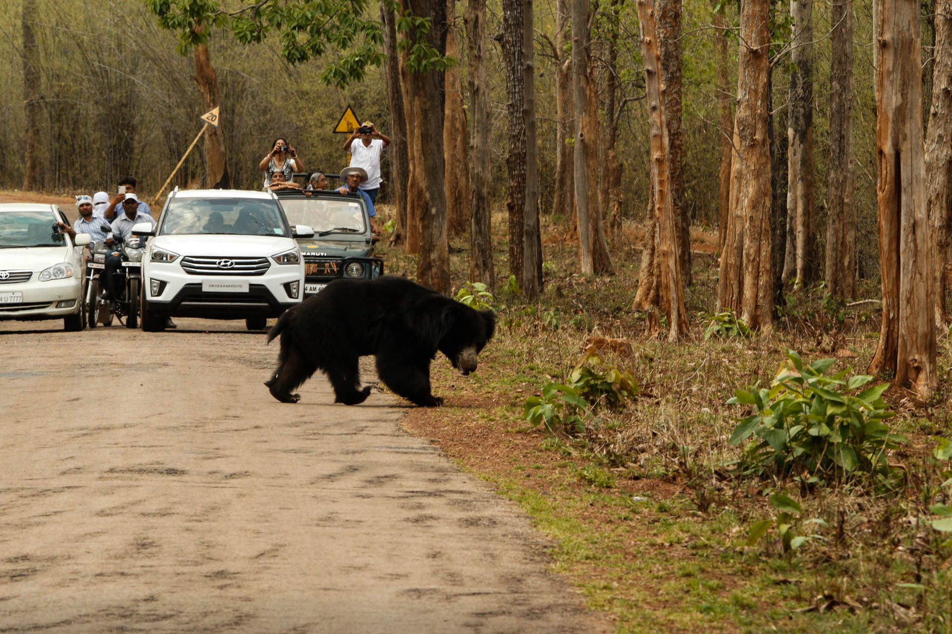 Found at the Tadoba Wildlife Sanctuary, Nagpur, India. The Sloth Bear was trying really hard to avoid the humans.